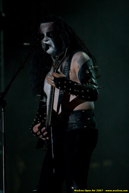 Apollyon during the Immortal concert at the 2007 Wacken Open Air.